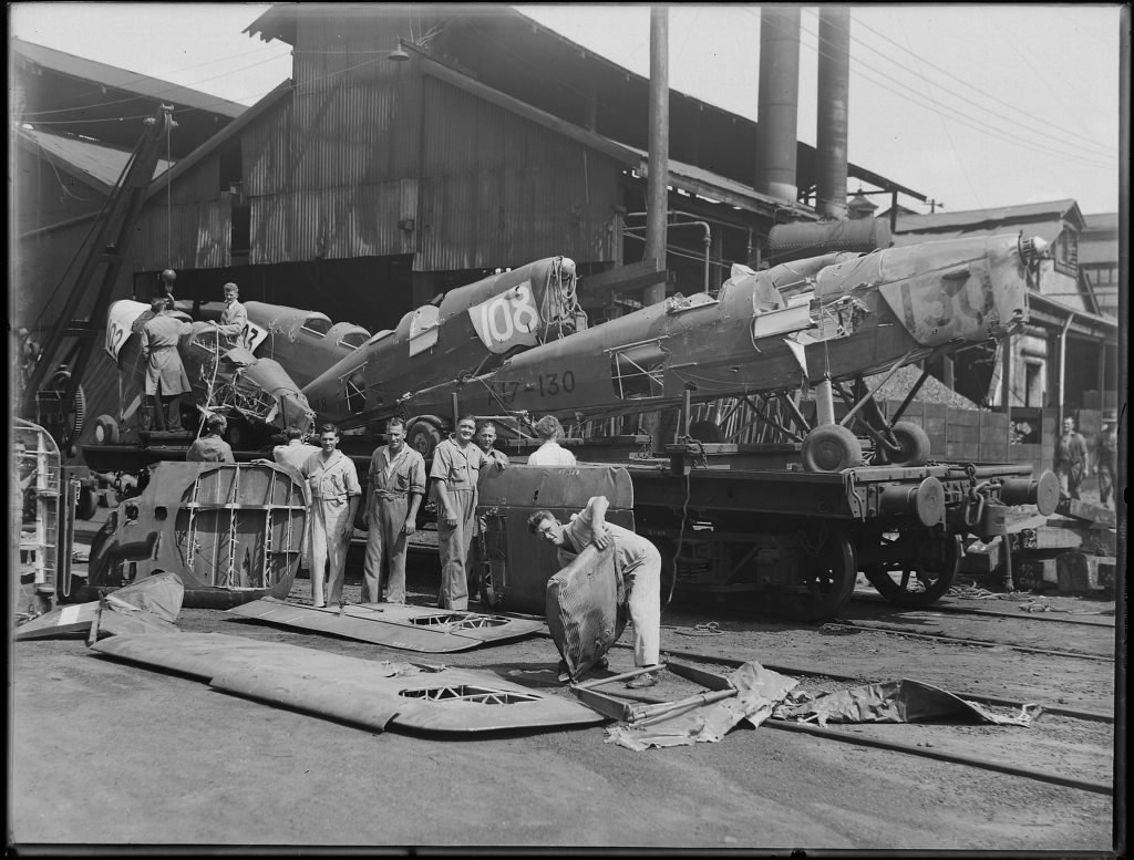 a collection of historical pictures in the Public Domain from the Powerhouse Museum. This files was posted to Flickr by The Powerhouse Museum (See their website for further information). Many thanks to the Powerhouse Museum for helping release this wonderful material. This tag does not indicate the copyright status of the attached work. A normal copyright tag is still required. See Commons:Licensing for more information.